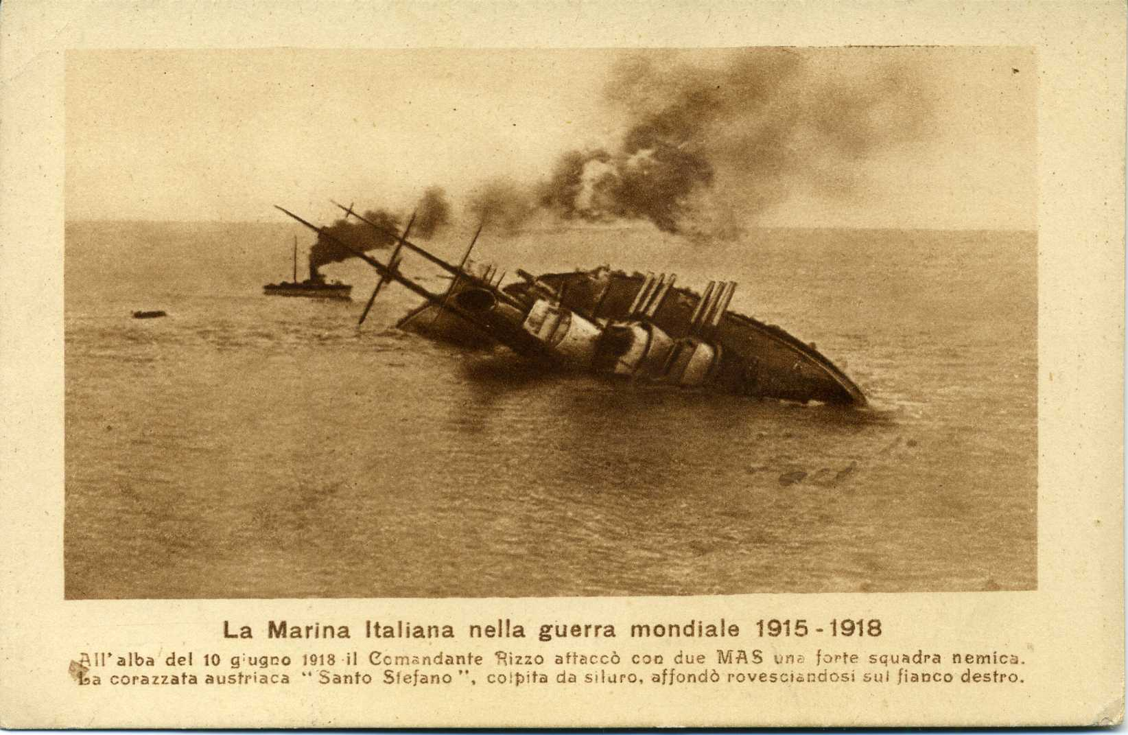 Italian postcard with photograph of the sinking of the Austro-Hungarian battleship SMS Szent István while it was proceeding to break through the Otranto Barrage 10 June 1918. The caption reads: "Italian Navy in the World War 1915-1918. On the dawn of June 10th, 1918, Commander Rizzo attacked with two MAS a powerful enemy squadron. The Austrian battleship 'Saint Stephen', hit by torpedo, sank, capsizing on the left side".